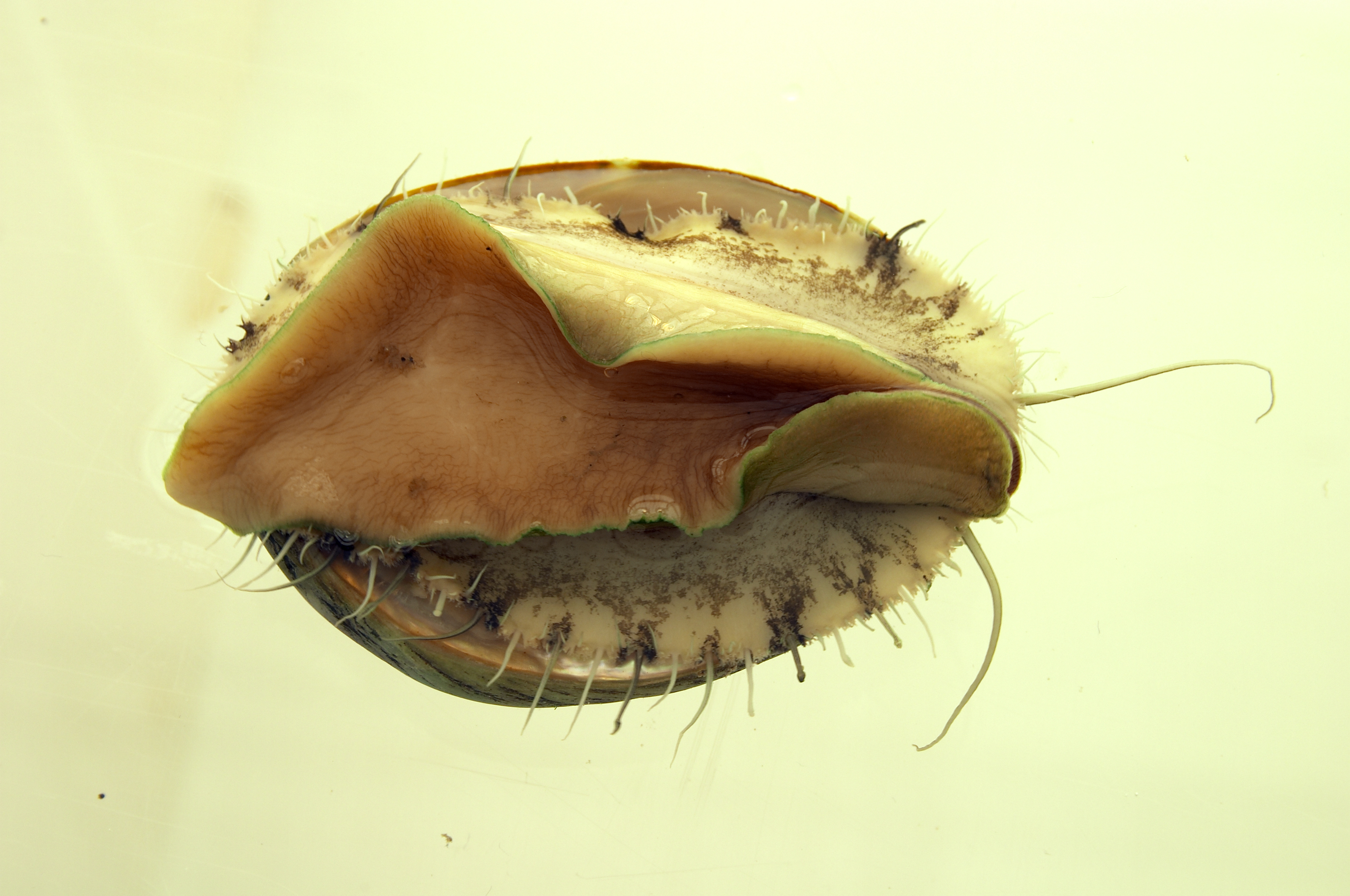 Cultured abalone in Australia